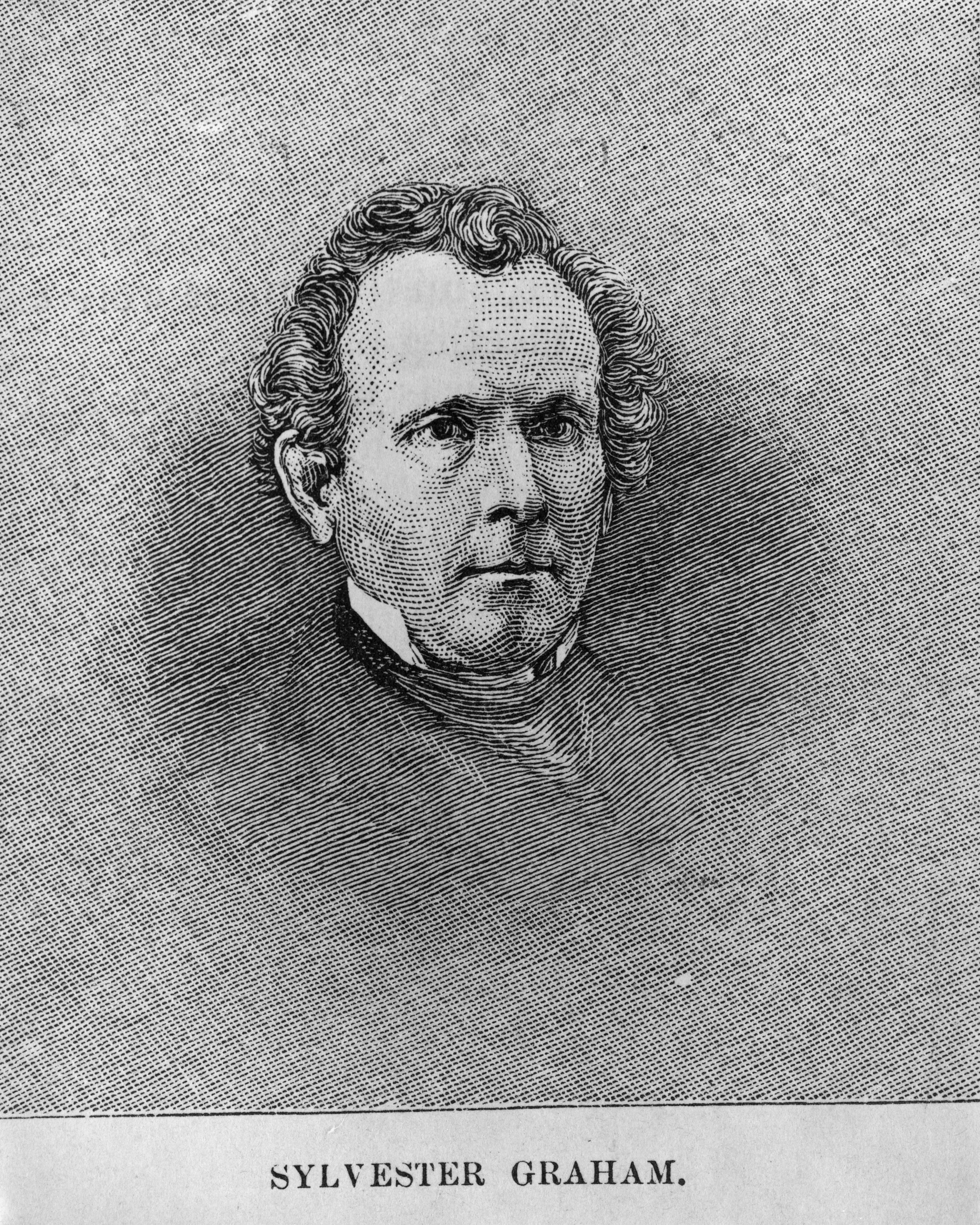 Title: Sylvester Graham Abstract/medium: 1 print : wood engraving.